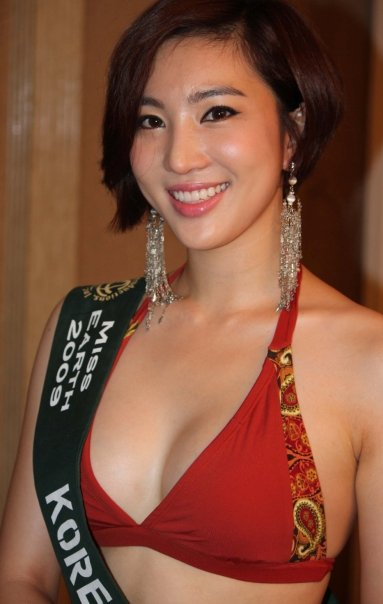 Miss Earth 2009 Press Presentation last November 4, 2009 in Valle Velarde 6, Pasig City, Philippines.